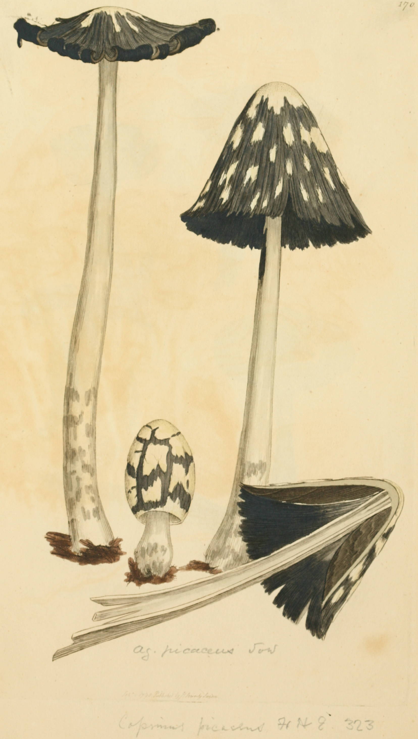 This is a plate from James Sowerby's Coloured Figures of English Fungi or Mushrooms.